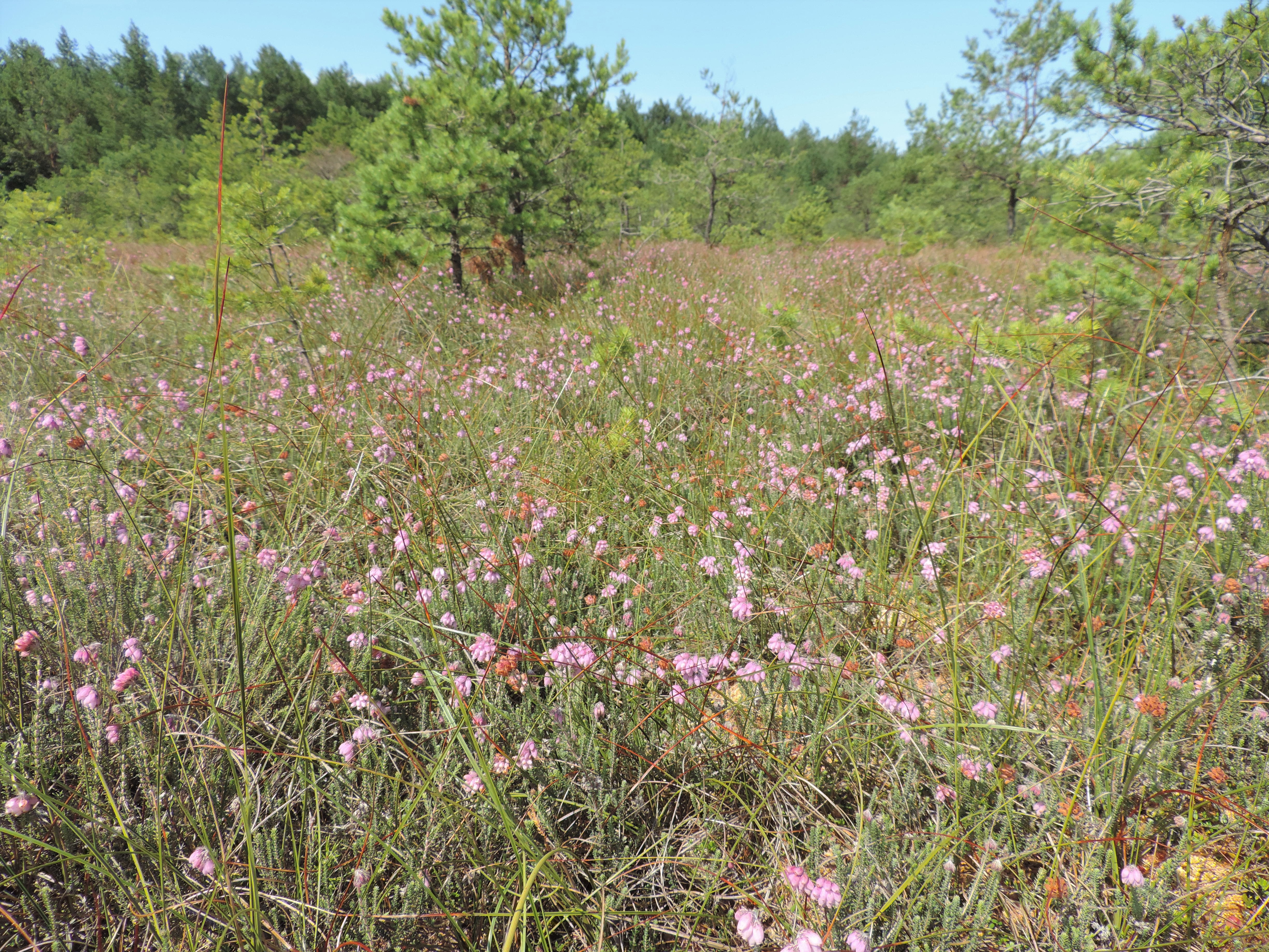 Erica tetralix on Sphagnum bog in Dźwirzyno, NW Poland